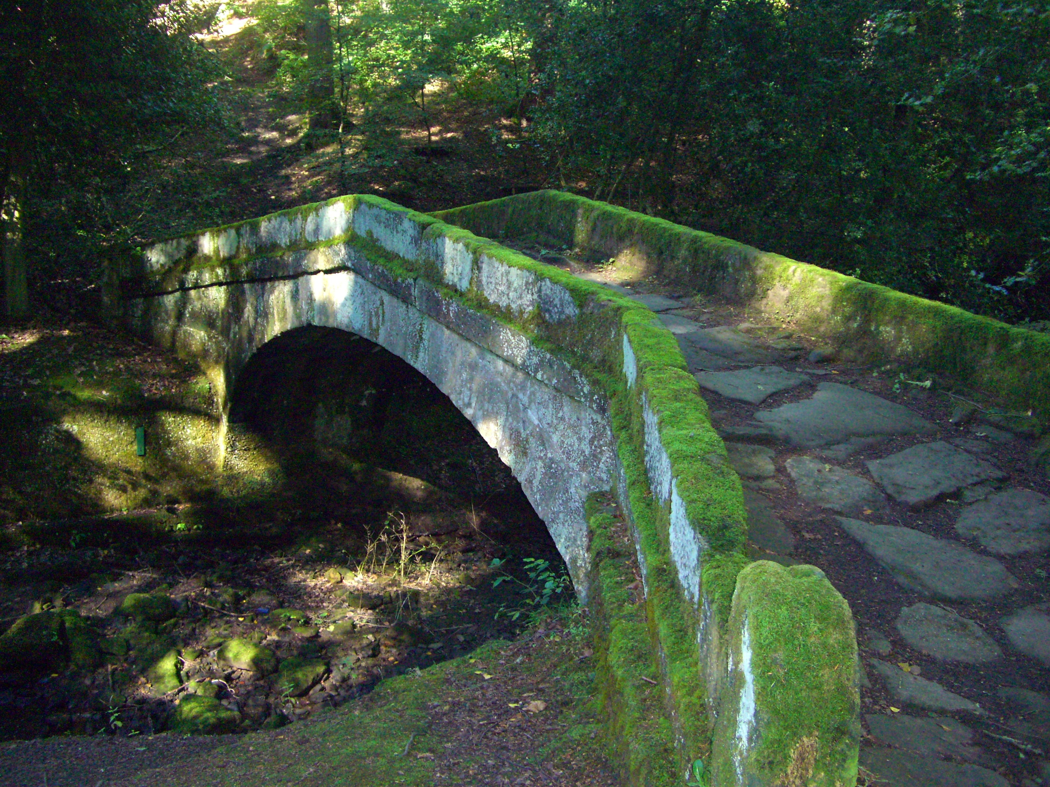 18th-century packhorse bridge over Tinker Brook in Glen Howe Park, Bradfield, South Yorkshire. The bridge was built in 1734 in the next valley to the north as New Mill Bridge over Ewden Beck. In the 19th century when More Hall Reservoir was built, the bridge was dismantled and moverd to its present site.